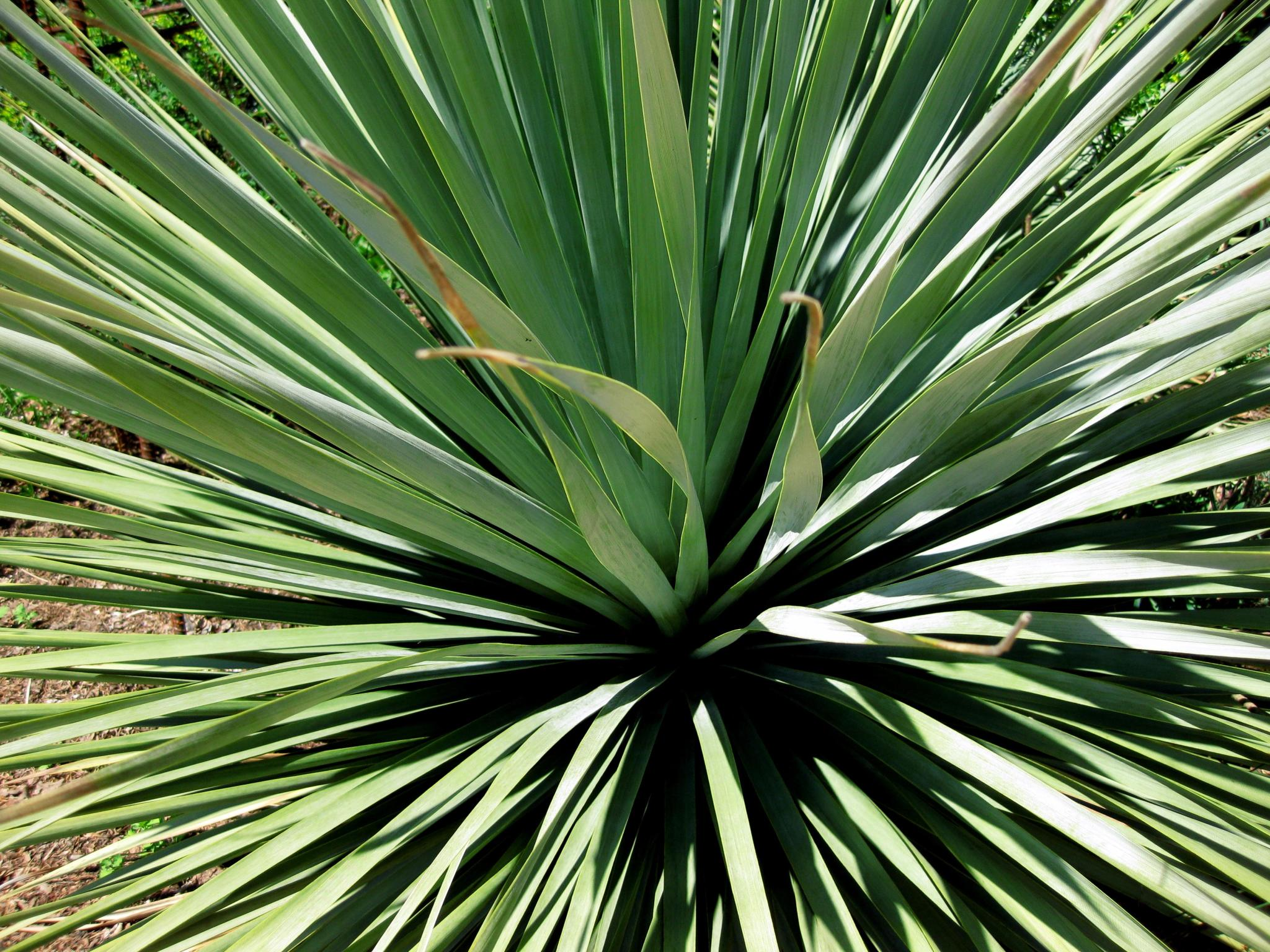 Nelson's Blue Bear-Grass. Taken at J.C. Raulston Arboretum, Raleigh, NC, United States